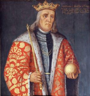 A painting of Christian I of Denmark made by Pieter Hartman (1607).